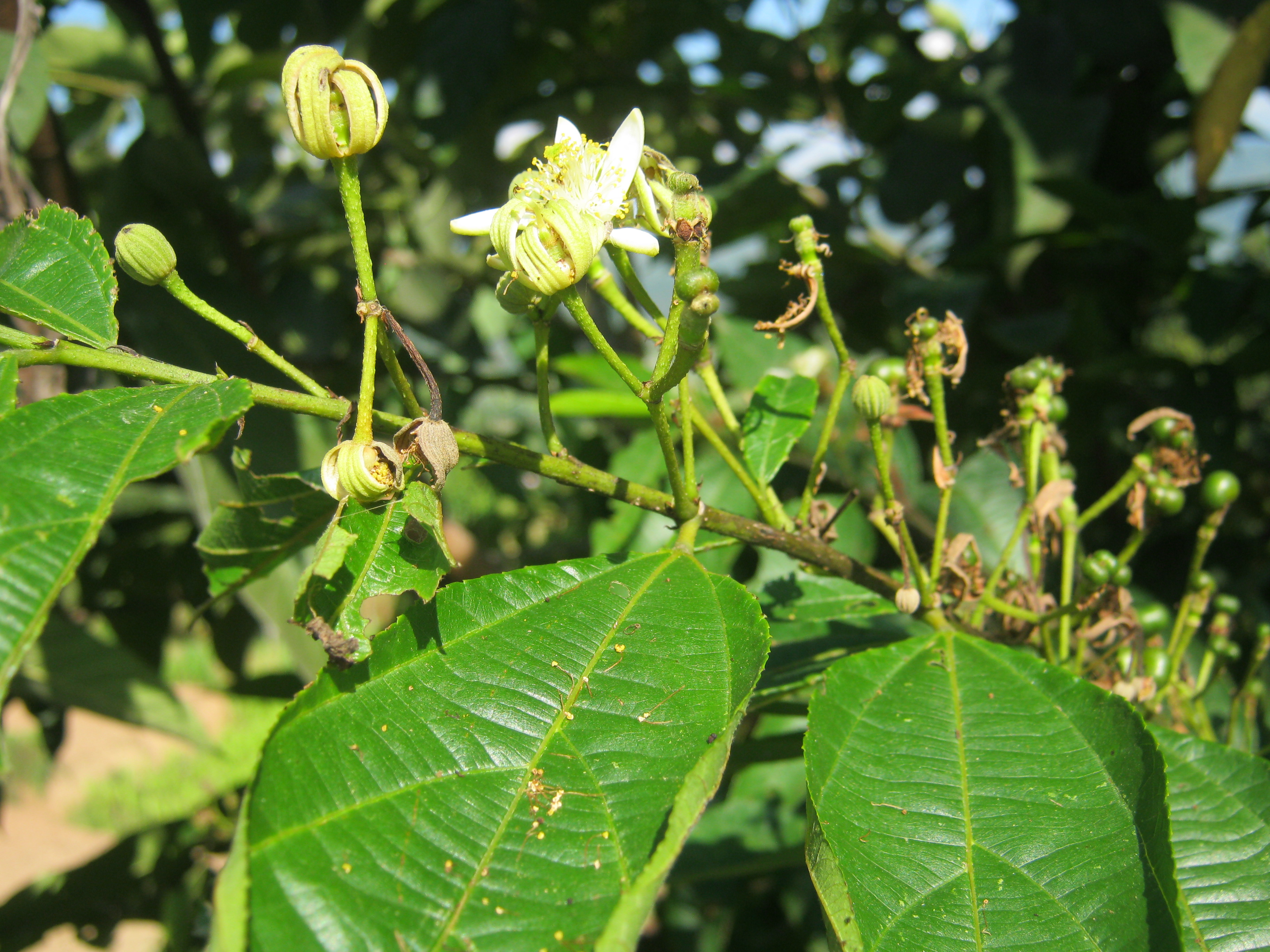 Celtis australis in Panchkhal VDC, Nepal